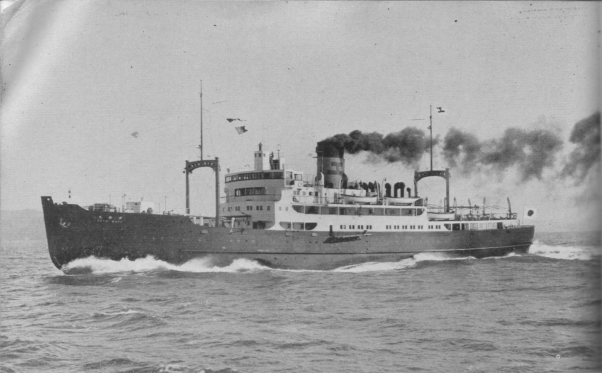 Chihaku (Wakkanai - Ōtomari ) Ferry Soya Maru (1932).